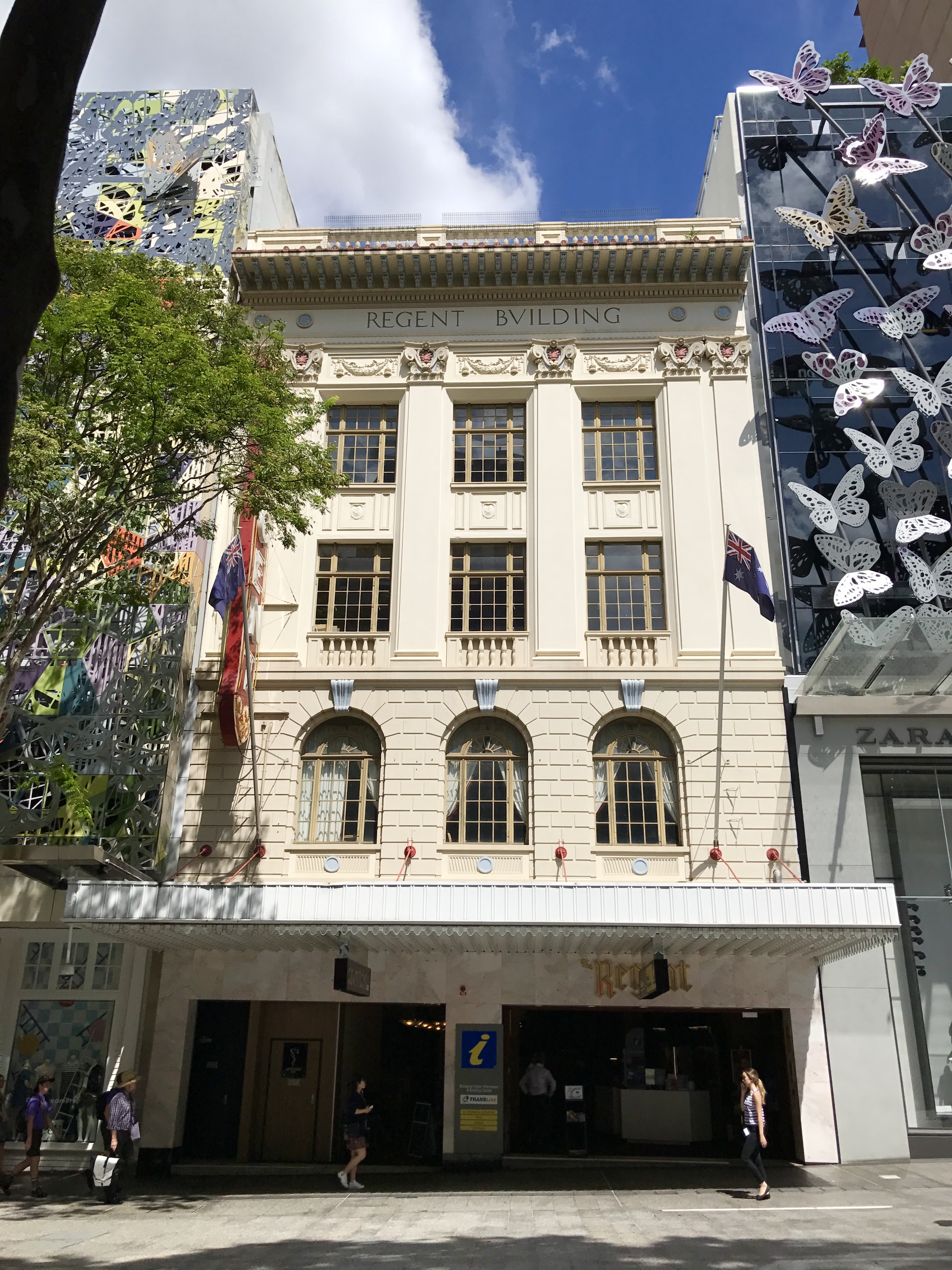 Regent Theatre, Queen Street Mall facade, Brisbane, Queensland